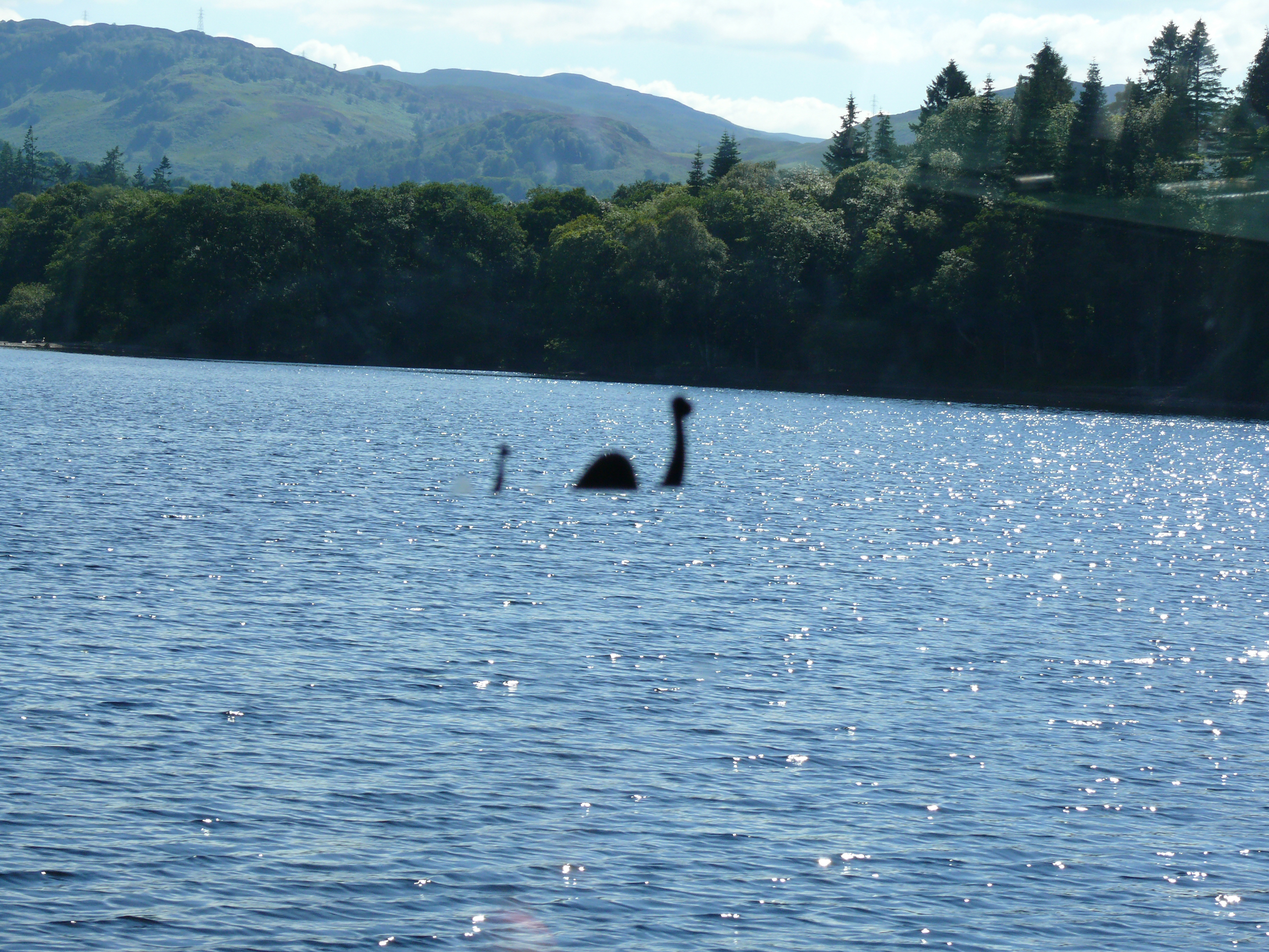 Apparently a sighting of the Loch Ness Monster (Nessie) near Fort Augustus, but actually a cleverly crafted hoax.